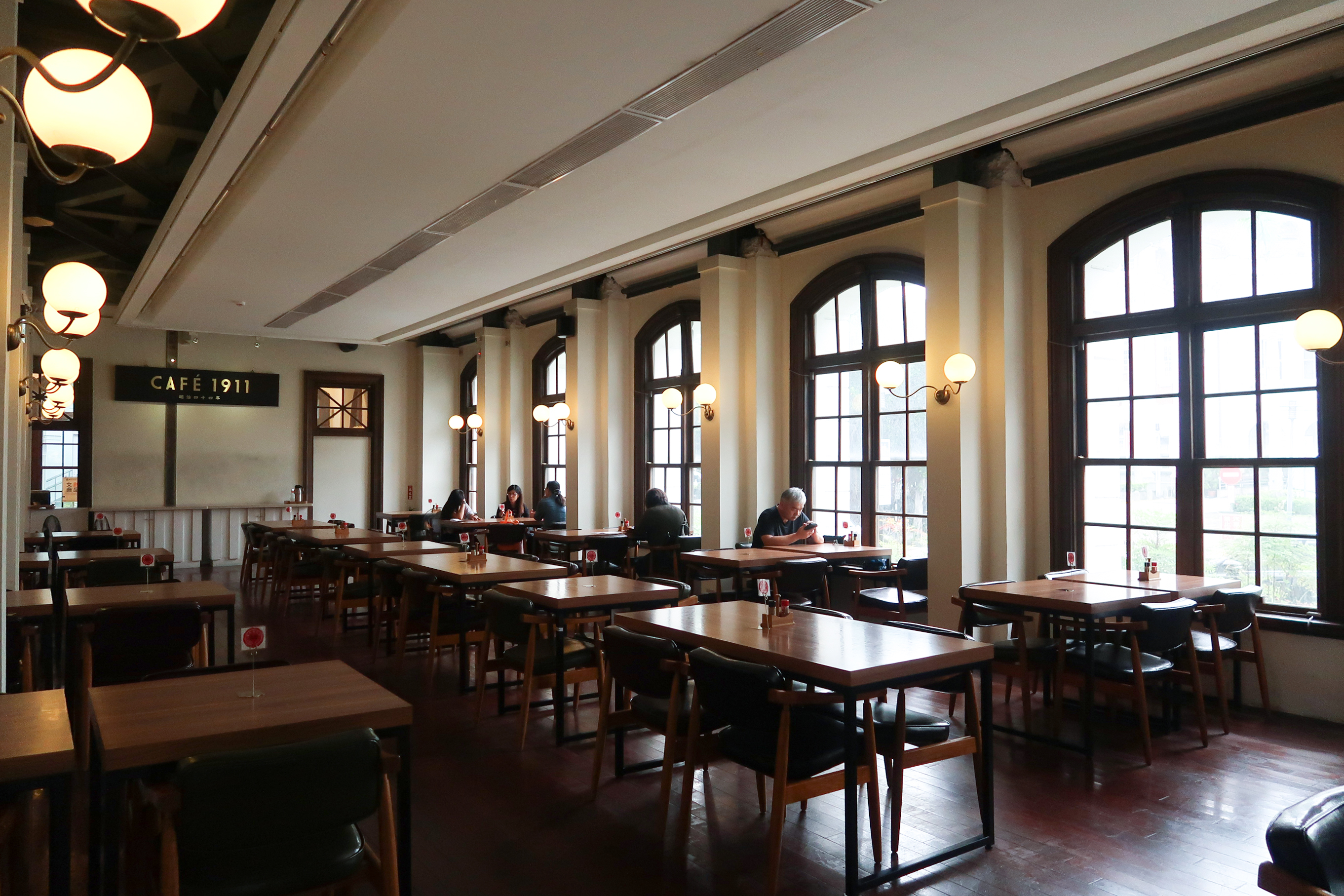 Taichung Municipal Office Building